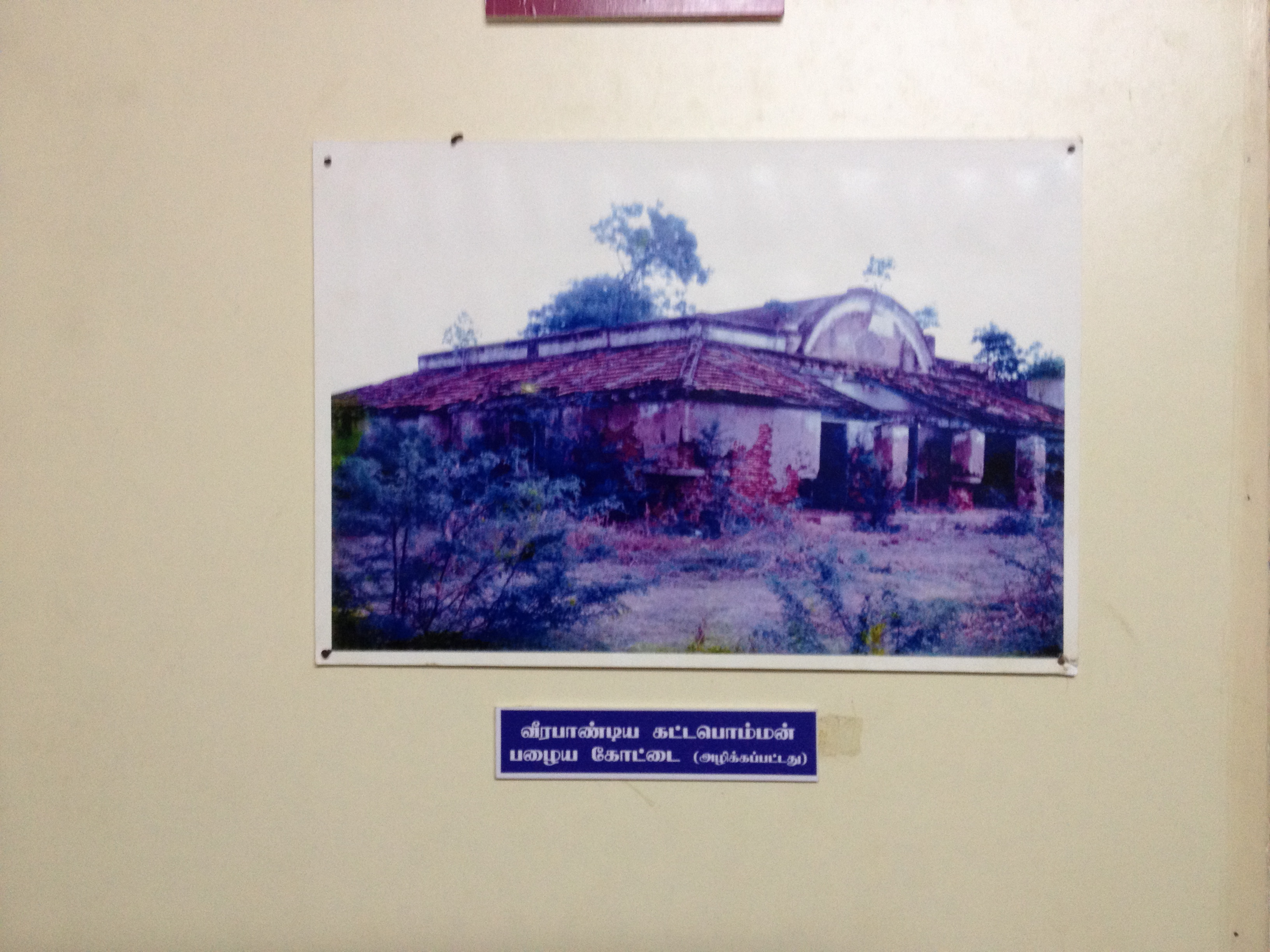 Tirunelveli Govt Museum Exhibit-Photo of the destroyed fort of Veerapandiya Kattabomman